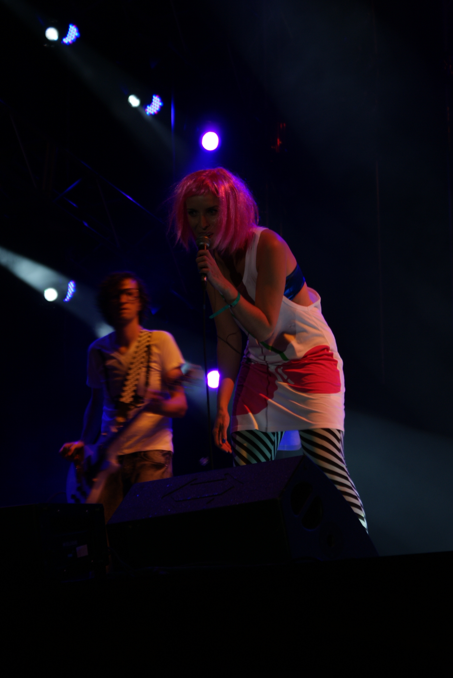 Orange Warsaw Festival 2009, Pl. Defilad, Warsaw, Poland Plastic